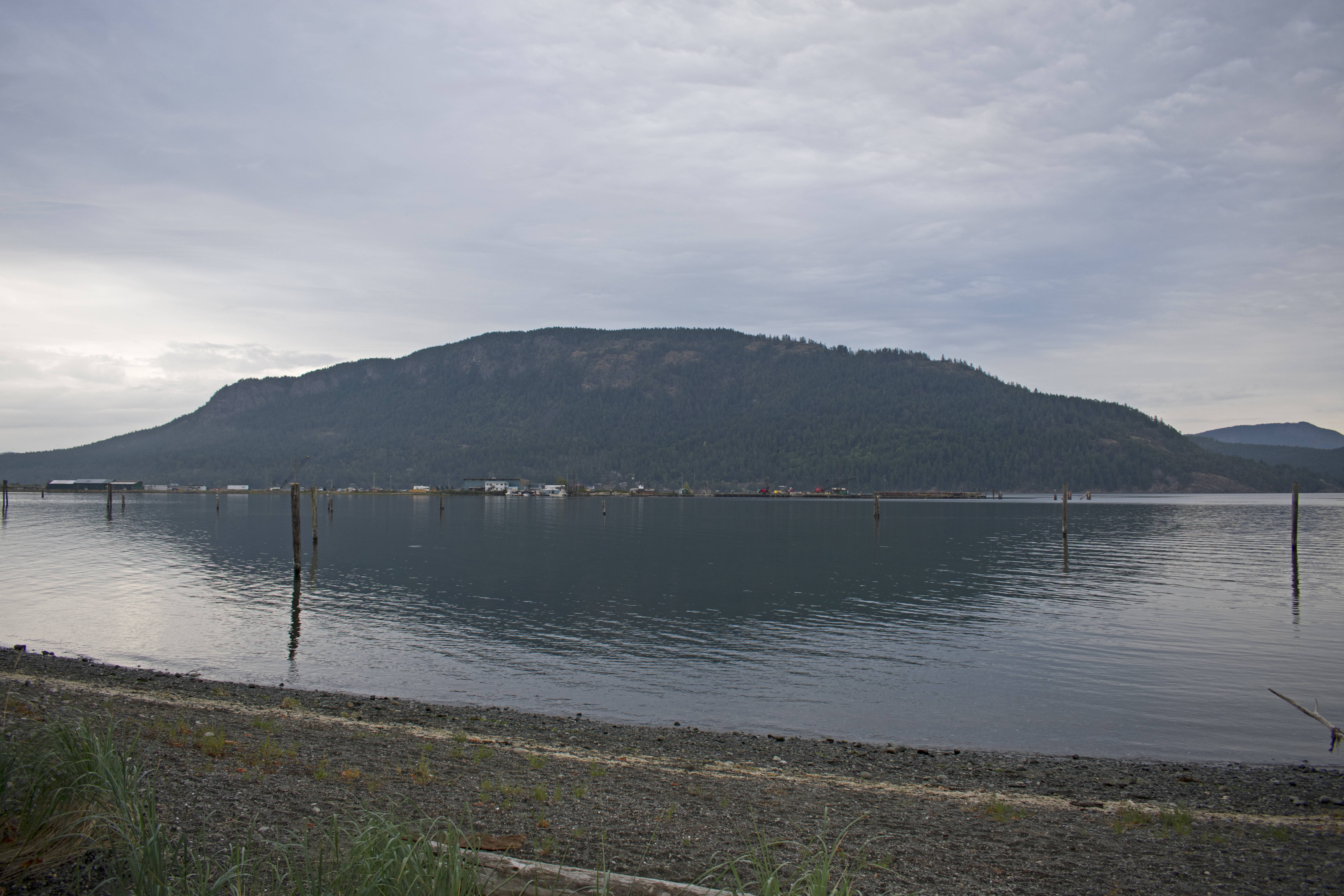 Cowichan Bay from the southern shore in Cowichan Bay. The mountain is presumably Mount Tzuhalem.